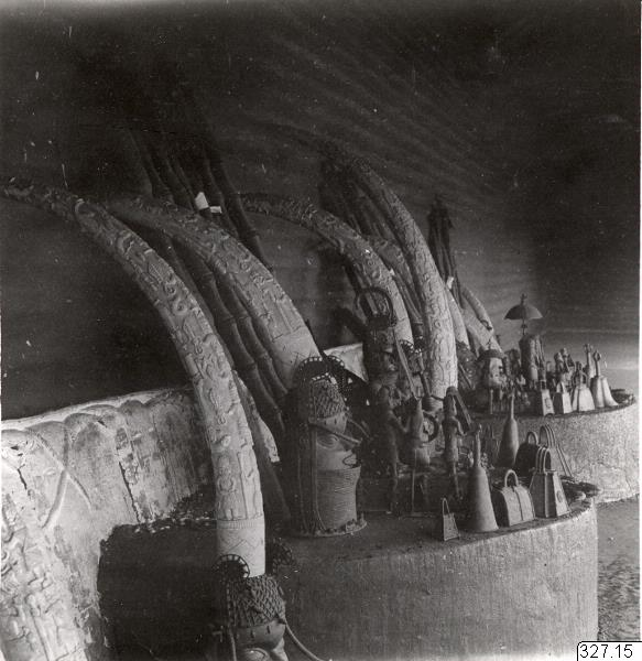 Two of the Oba of Benin's ancestral altars, 1936 - 0327.0015